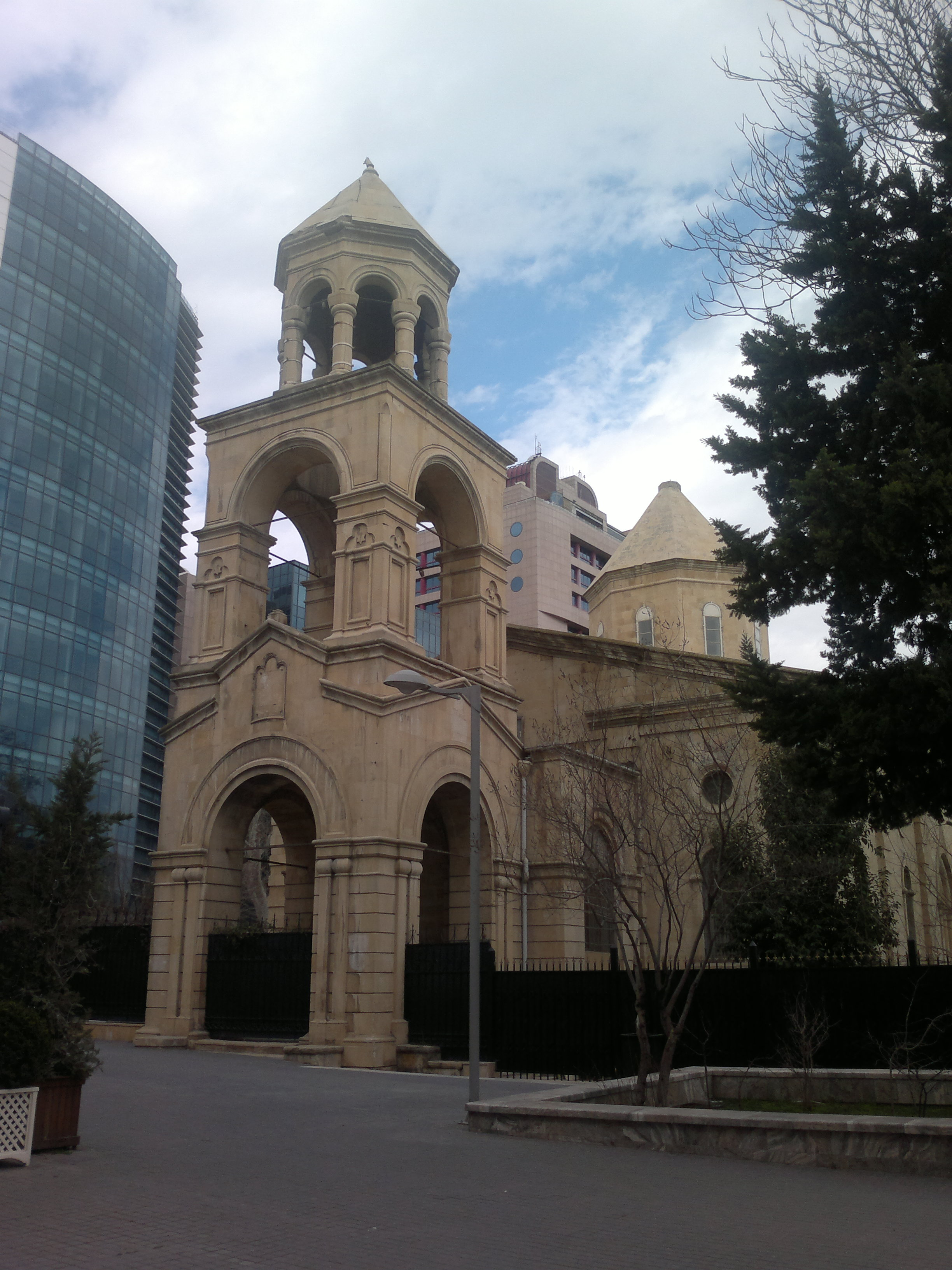 Grigory Church in Baku